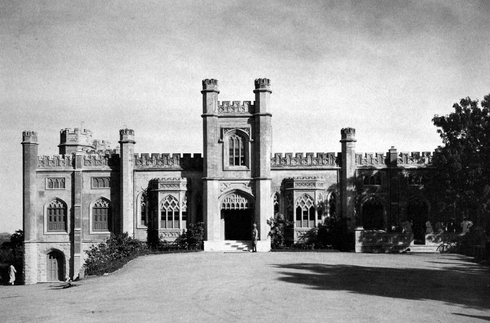 Exterior view from west of Hill Fort Palace, 1930s